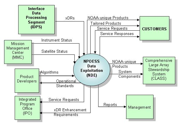 This diagram depicts the NDE system in terms of its relationship to external entities.